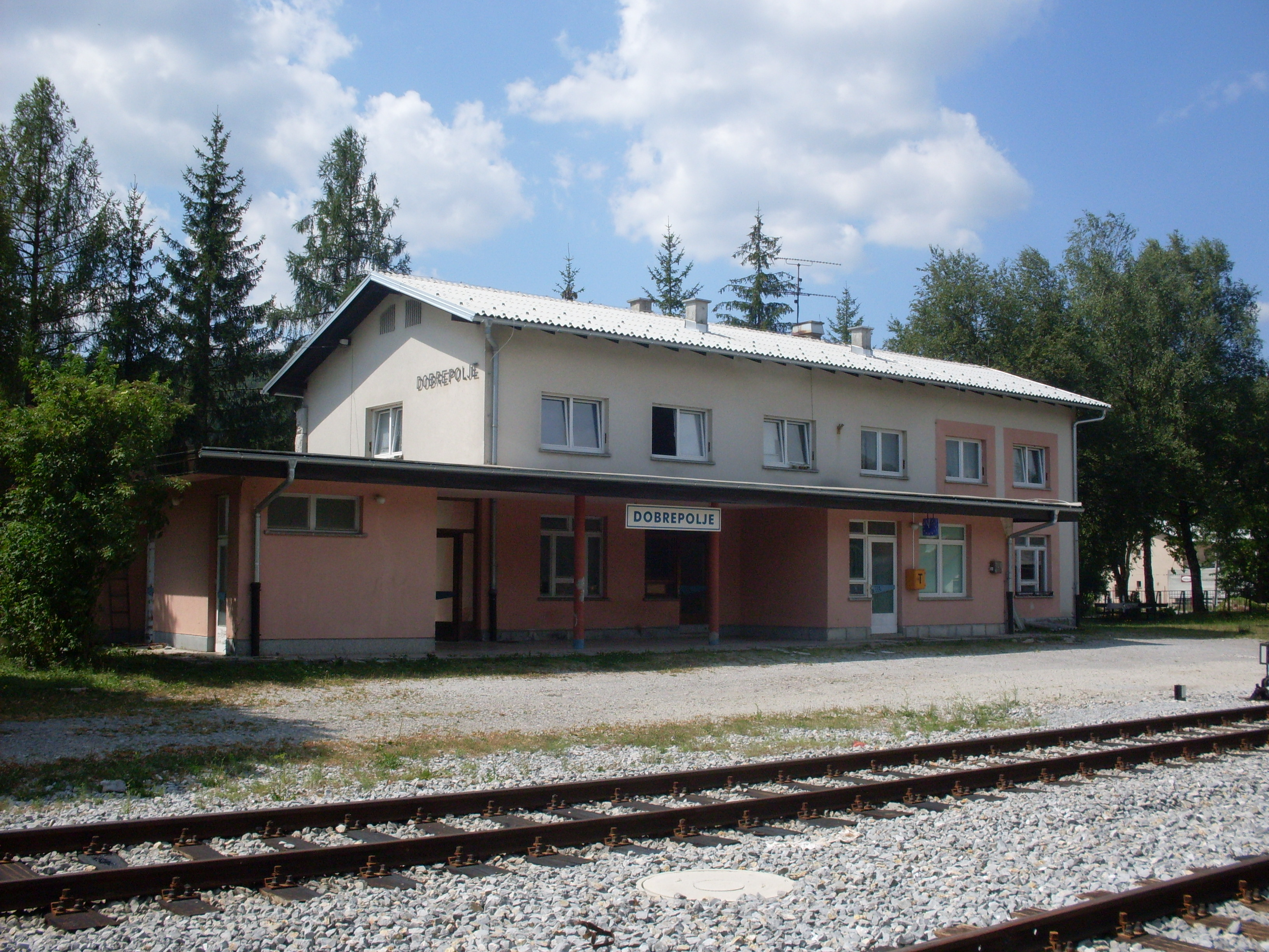 Train station Dobrepolje, located in Predstruge